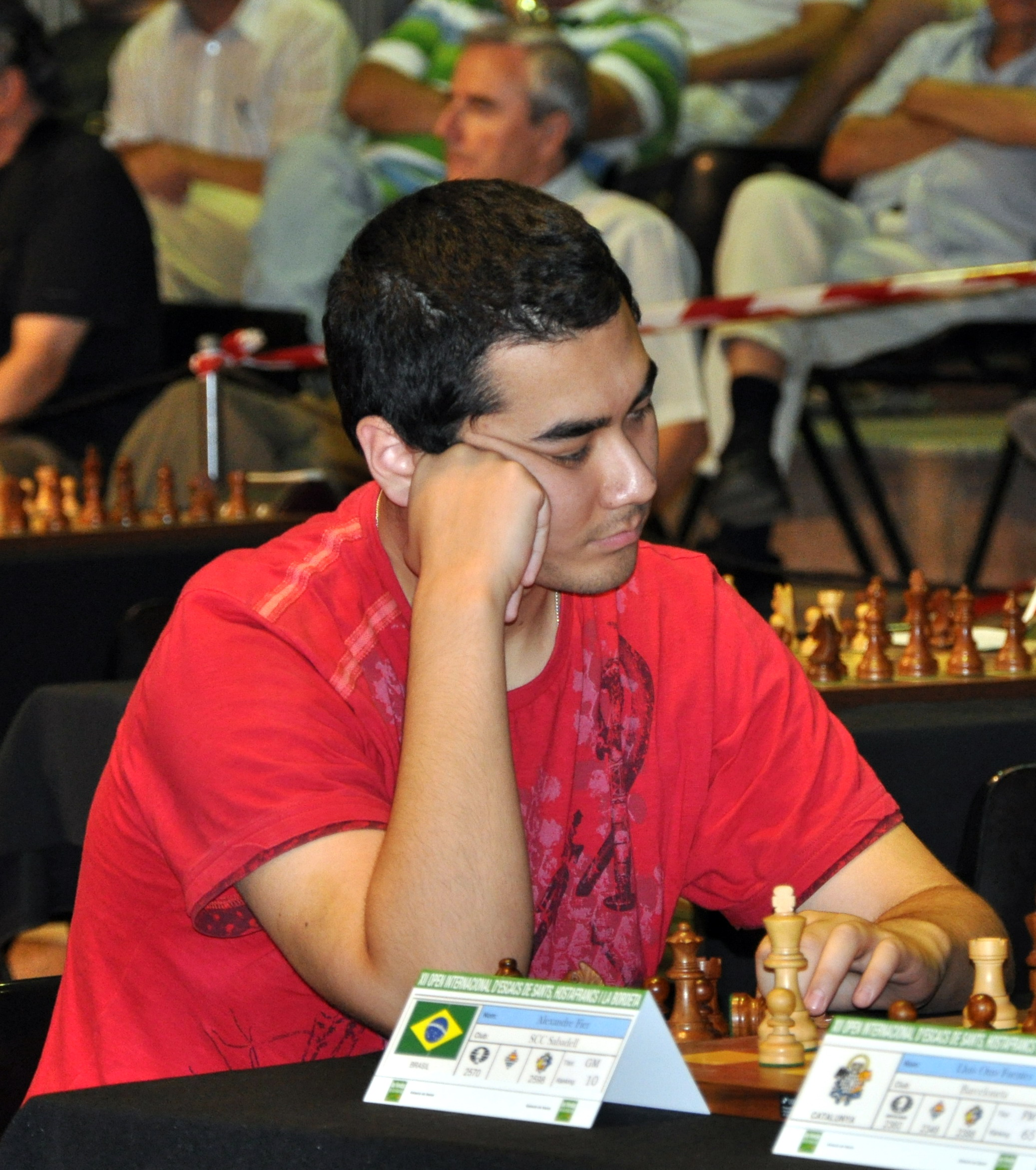 GM Alexandr Fier (Brazil), XII Open Internacional de Sants, Hostafrancs i la Bordeta Grup A, Barcelona 2010